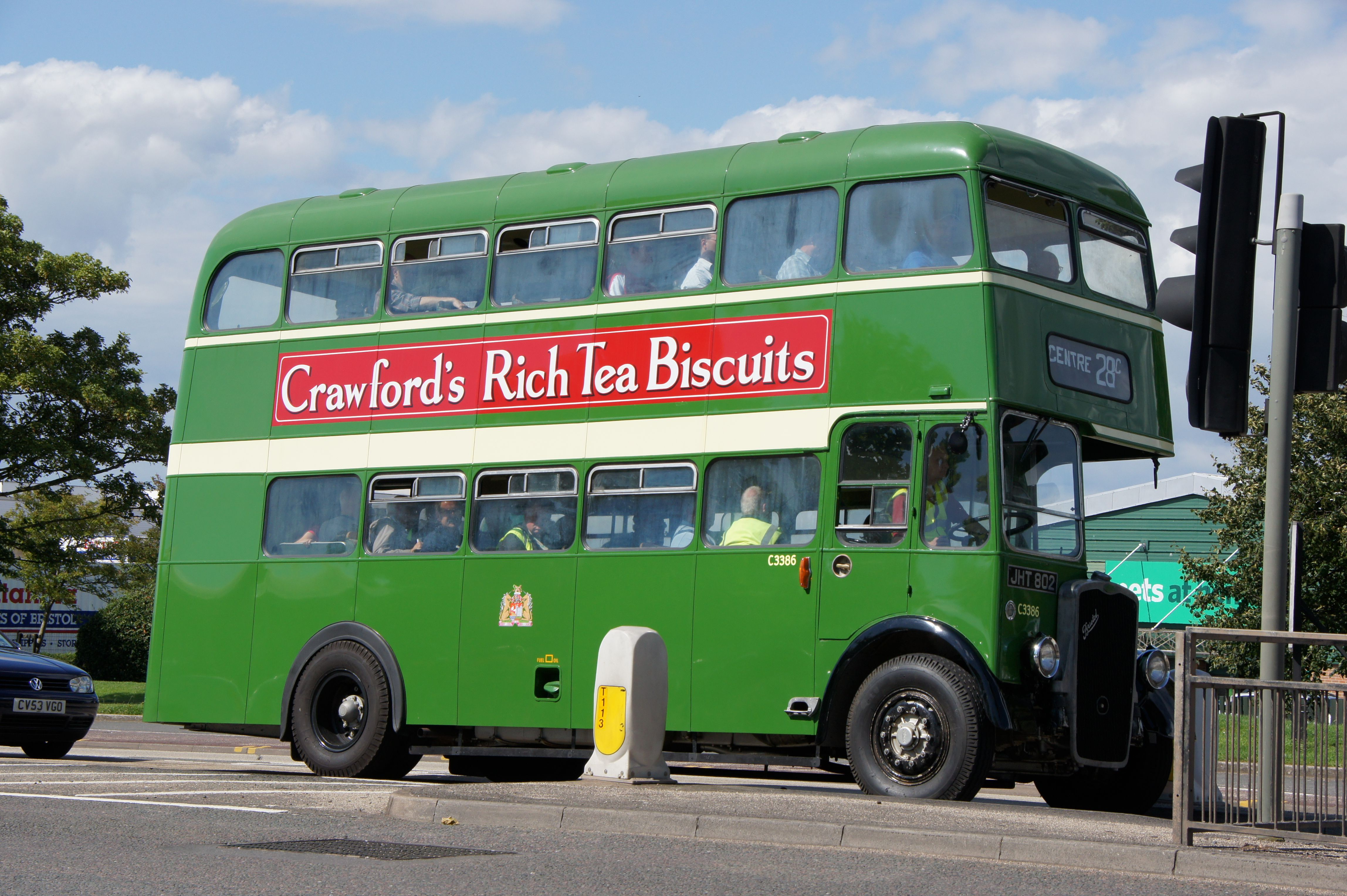 3386-JHT802-3 140811 CPS